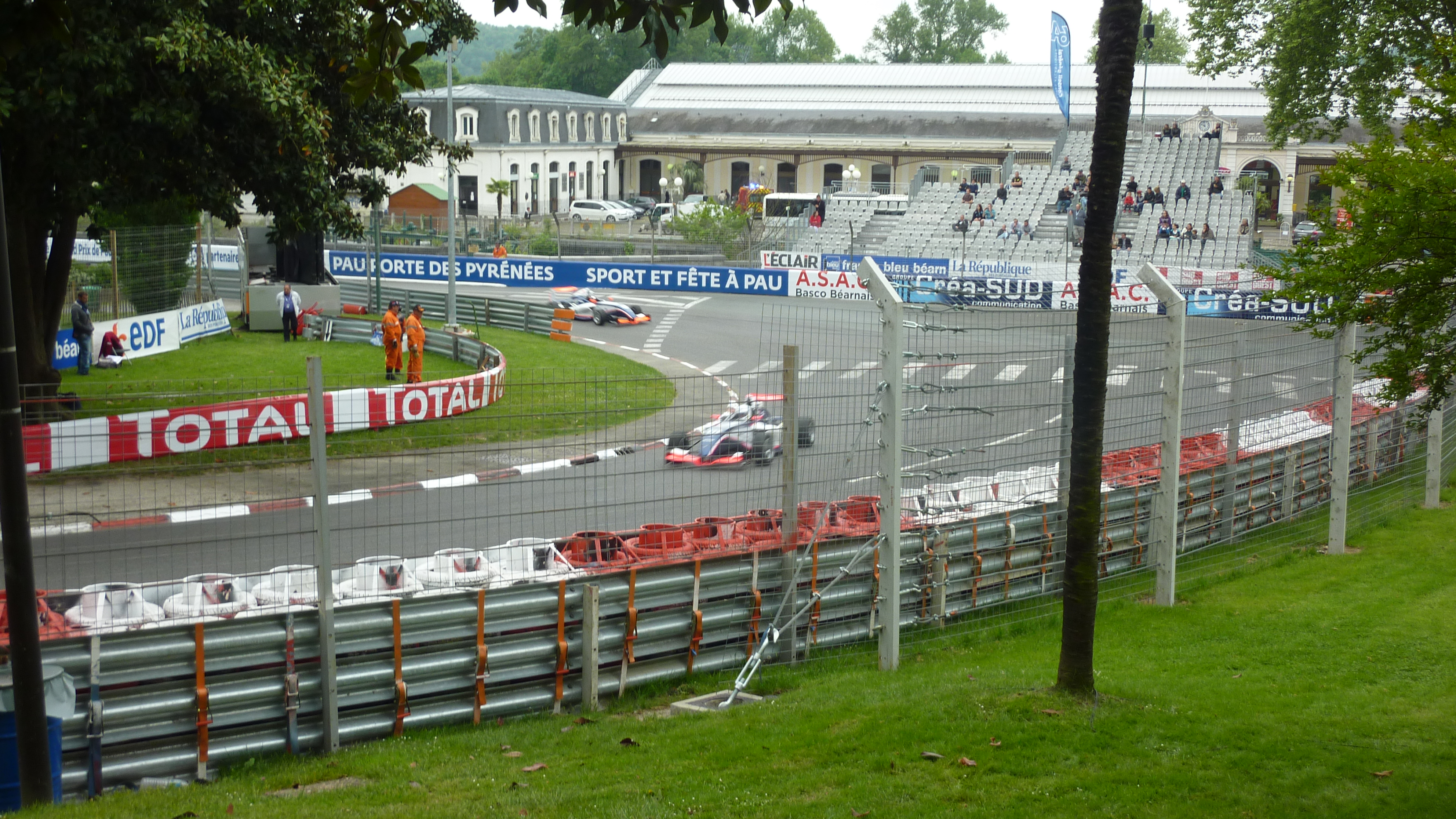 French F4 Race @ Pau, 2014